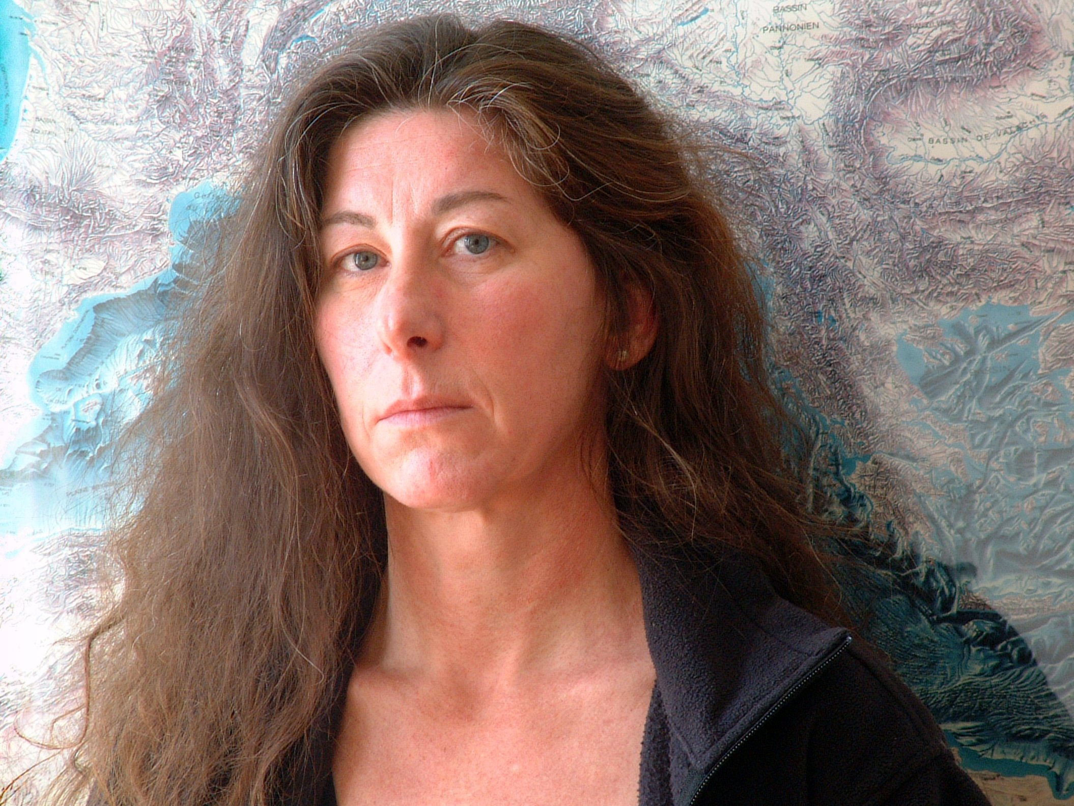 Portrait of Miki Malör